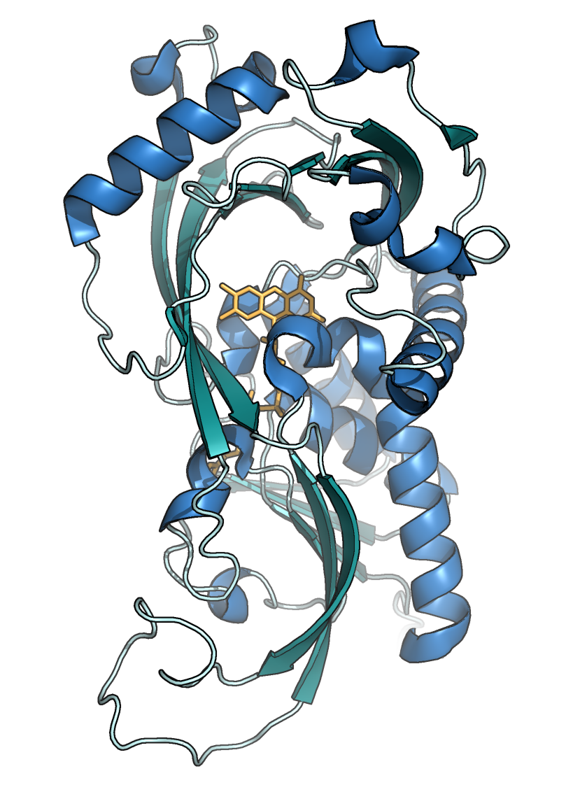 Crystal structure of RgDAAO (PDB code 1c0p)